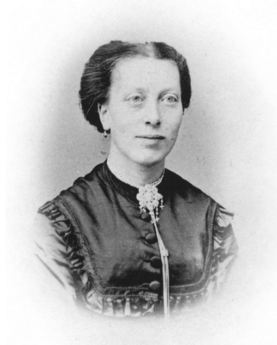 This file is from the book "MUSIKKHANDEL I NORGE FRA BEGYNNELSEN TIL 1909" (Music Publishing in Norway from the Beginning Until 1909) by Kari Michelsen. The author scanned the image from from a photograph taken in 1870, held in the archives of the Aust-Agder kulturhistoriske senter in Arendal, Norway.